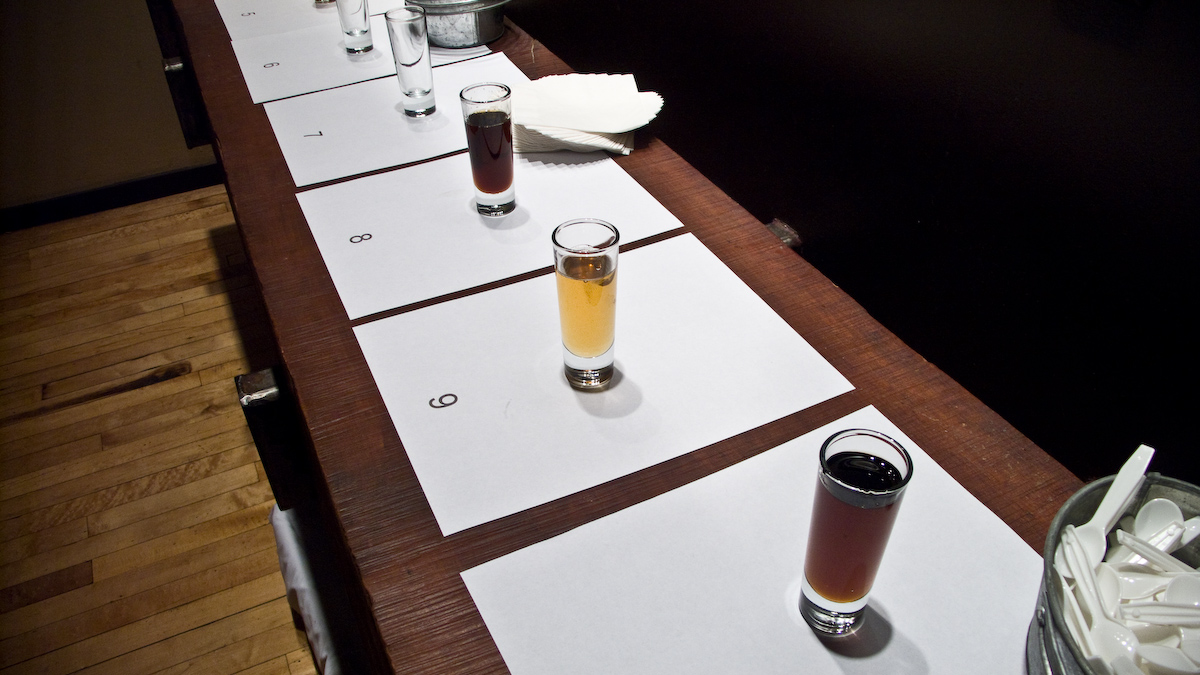 Slow Food Maple Syrup Tasting